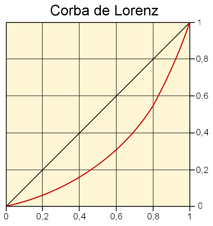 Lorenz curve in Catalan.